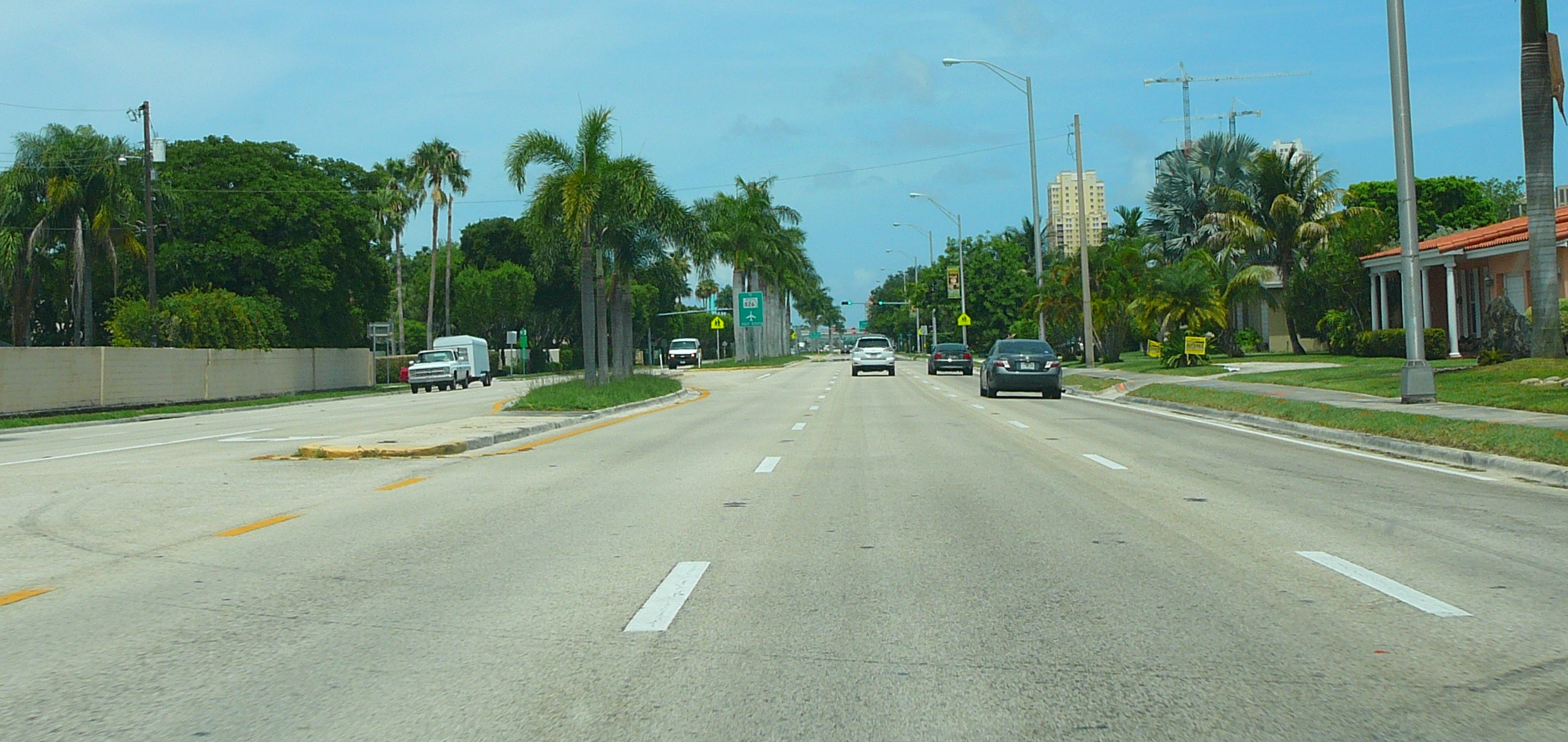 Kendall Drive eastbound between Galloway Road and the Palmetto Expressway. Just west of Dadeland 7/10/2008.